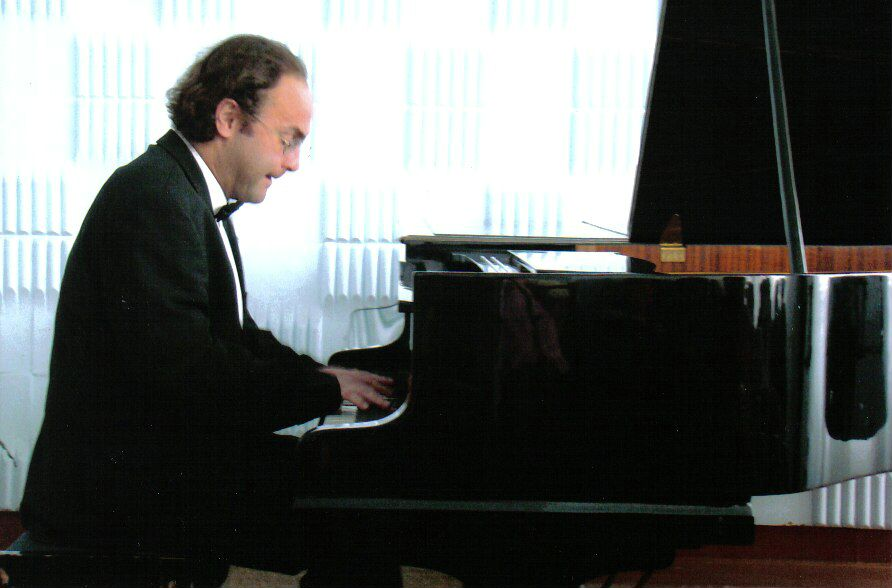 Jonathan Powell, english pianist